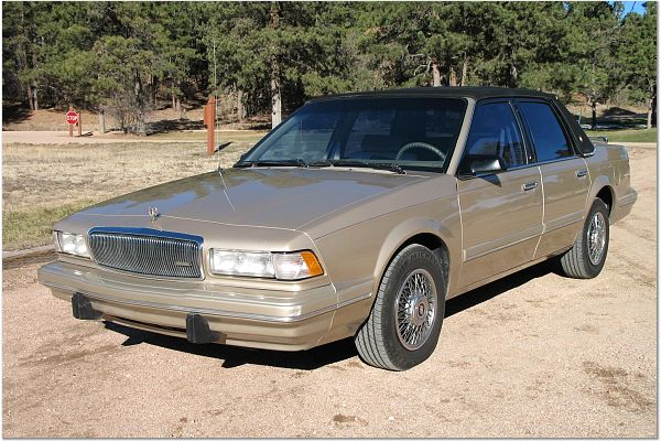 1995 Buick Century Limited